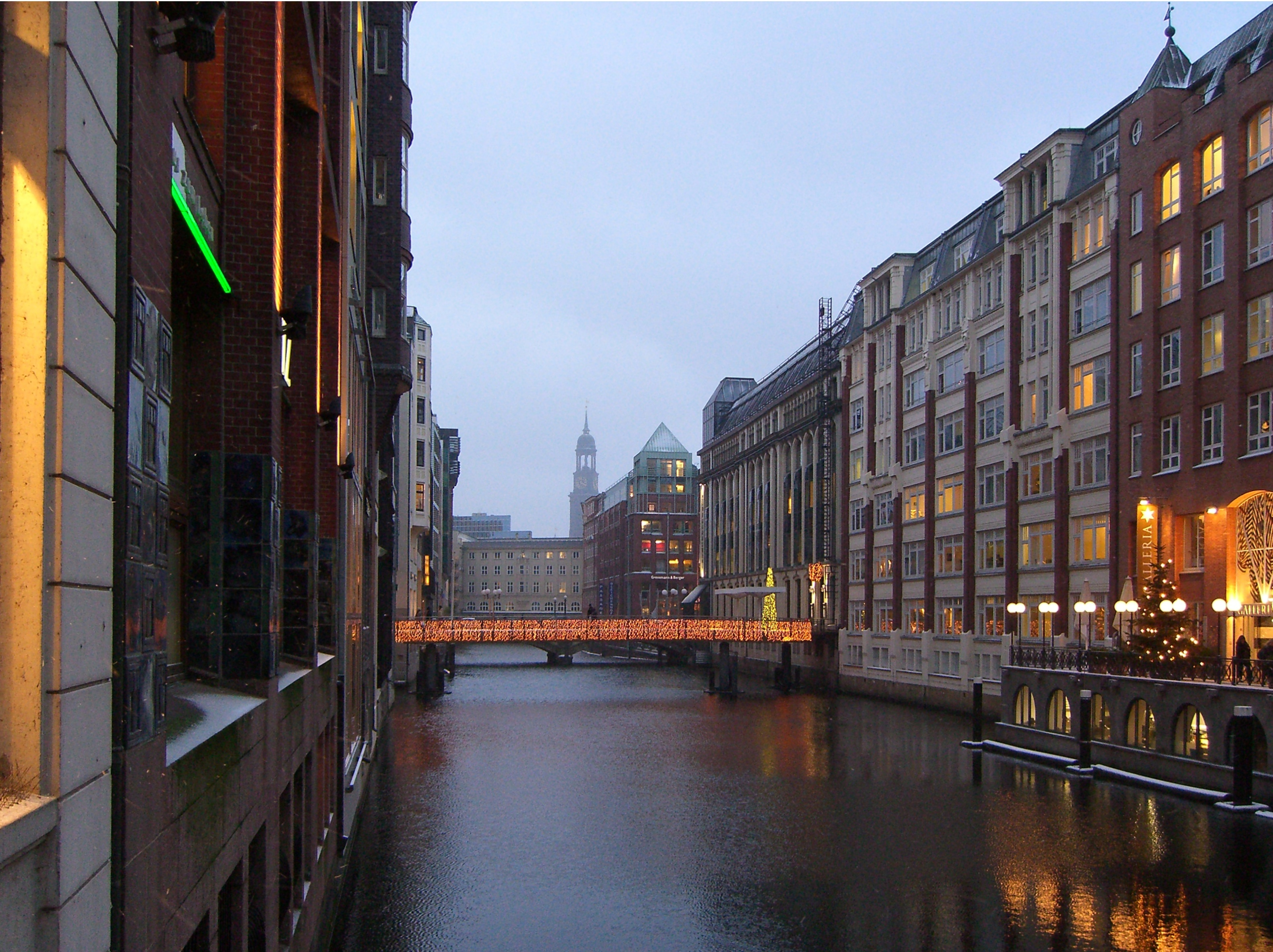 Dike "Bleichenfleet" in Hamburg. In the background the top of St. Michaelis.